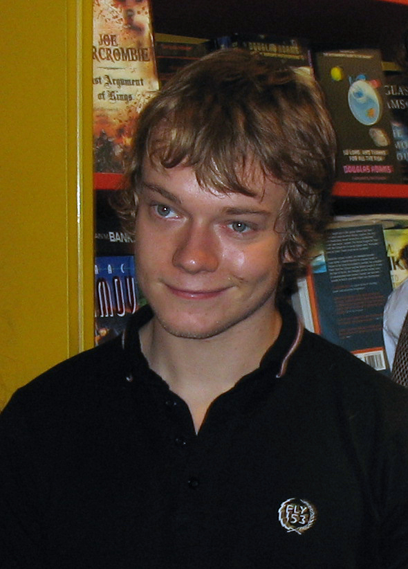 Alfie Allen at the GRRM Easons Book signing Belfast 3rd Nov 2009, which was followed by an evening event called Moot 1 organised by the Brotherhood Without Banners (ASoIAF fandom).